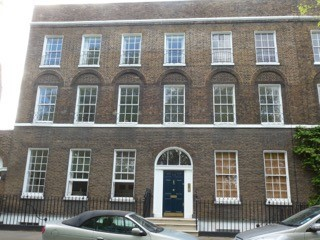 Highbury is a large old house built before the French revolution in North London.